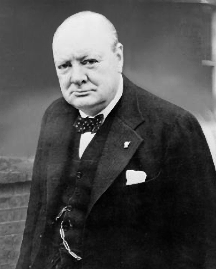 Winston Churchill